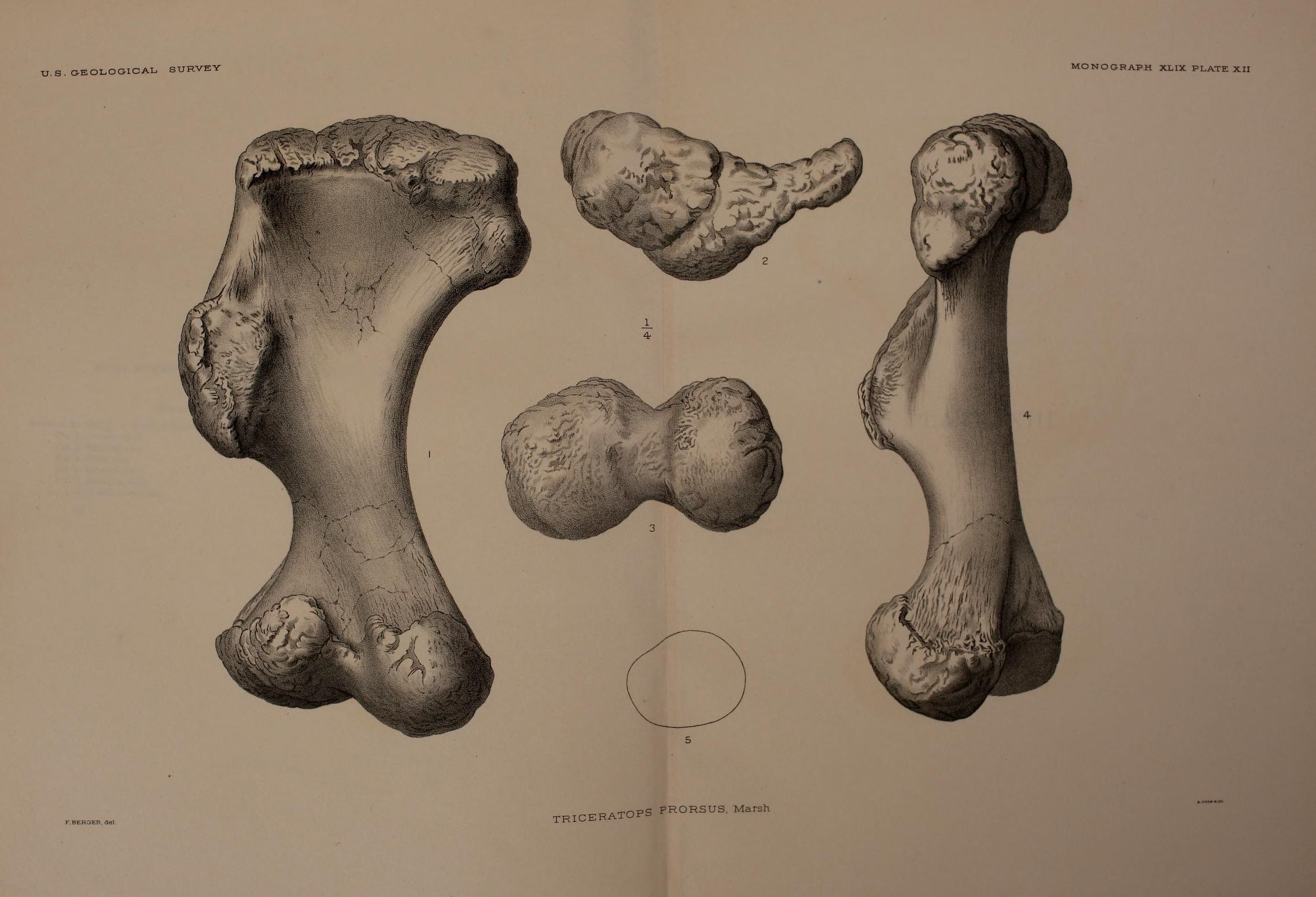 Triceratops prorsus Marsh.